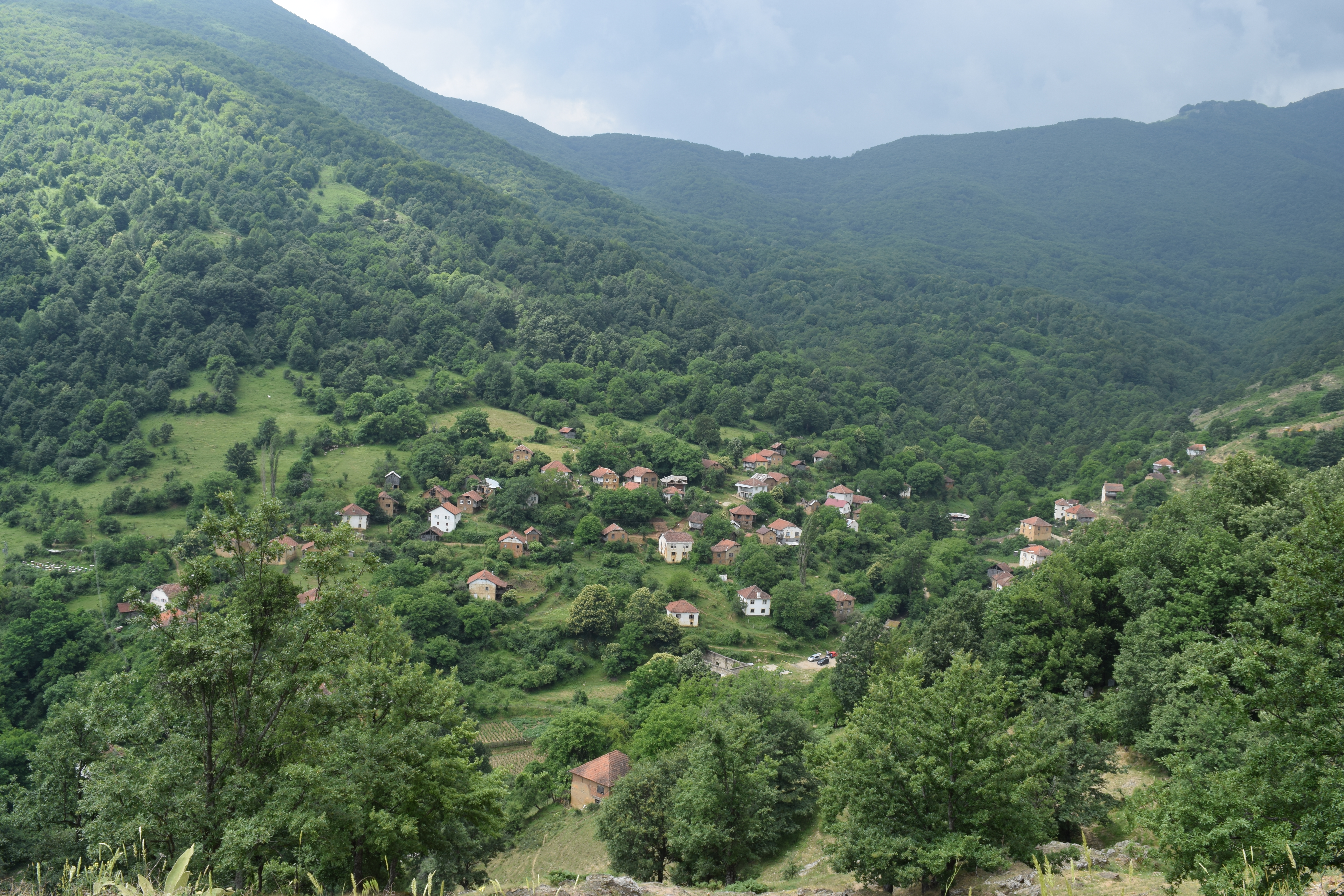 View of the village Oreše